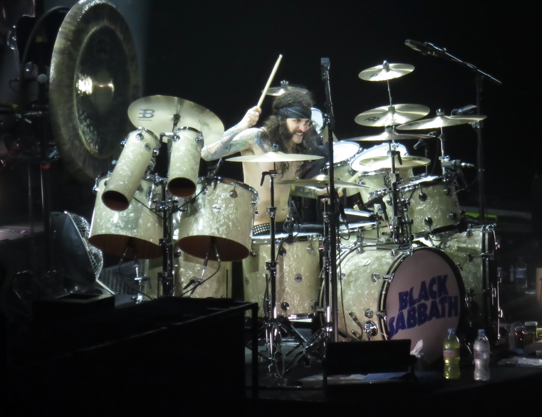 Tommy Clufetos with Black Sabbath during the final concert of their The End Tour, Genting Arena, Birmingham.